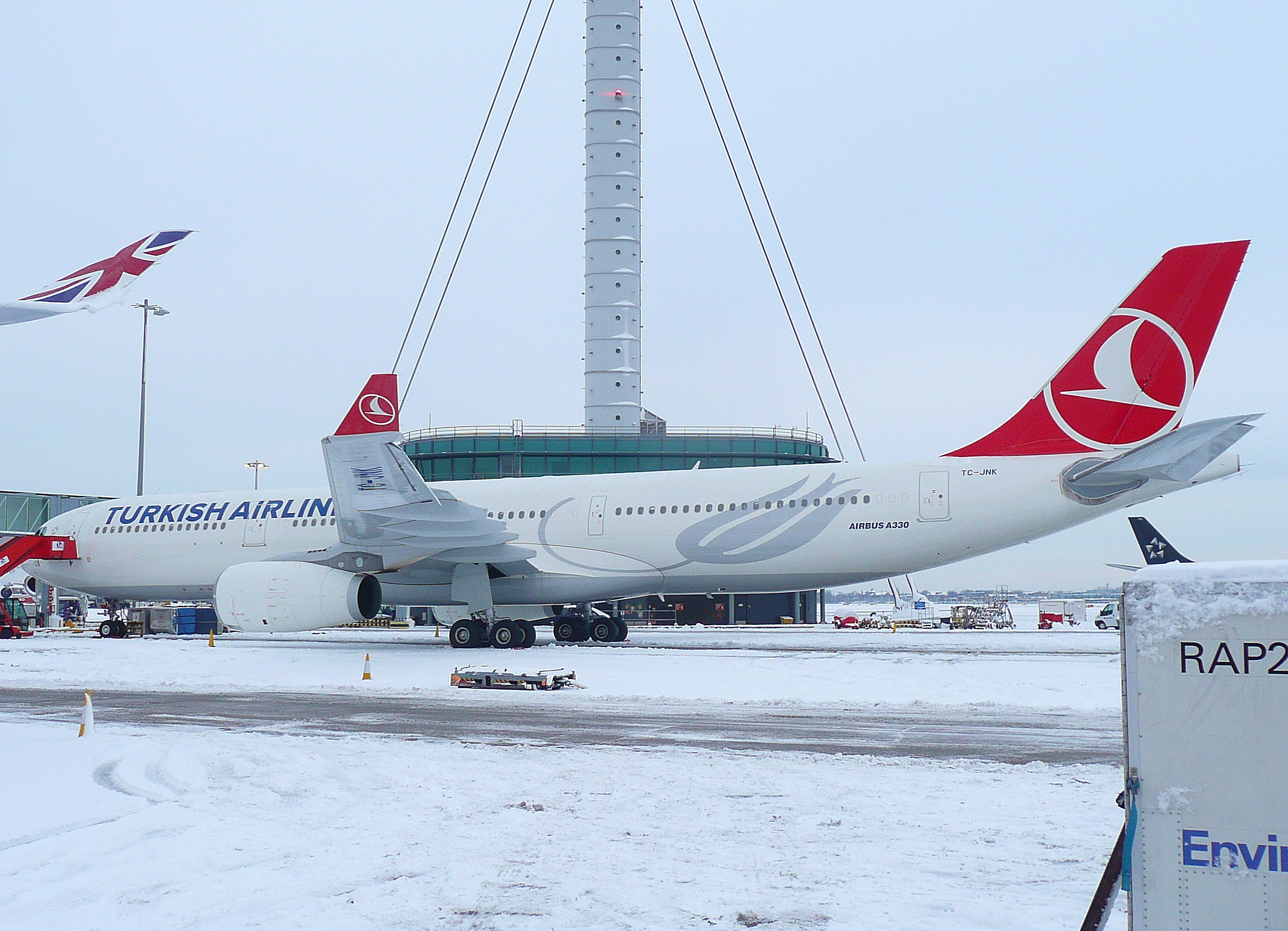 TC-JNK A333E THY on std in front of the control tower during it's lengthy first visit.